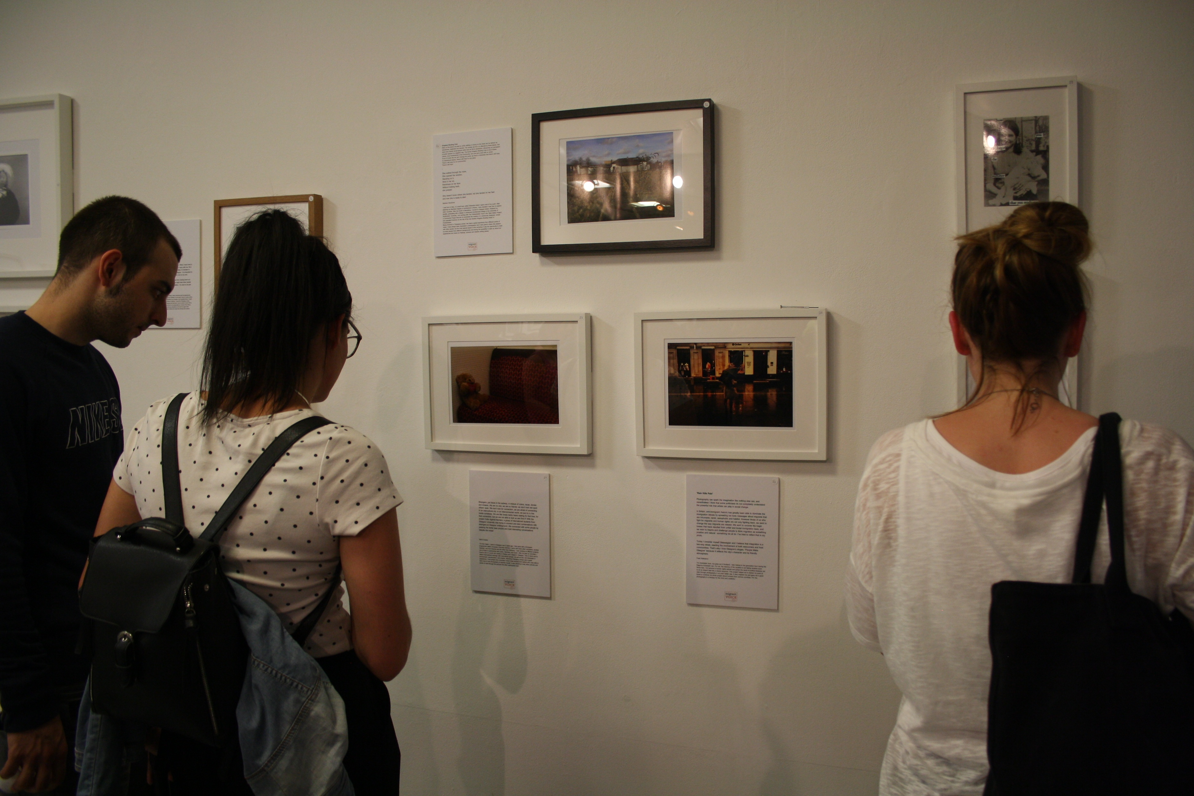 Human rights activist Fuad Alakbarov's photography. Migrant Voice's "Changing Lenses: Glasgow Stories Of Integration" photography exhibition. Centre for Contemporary Arts in Glasgow.